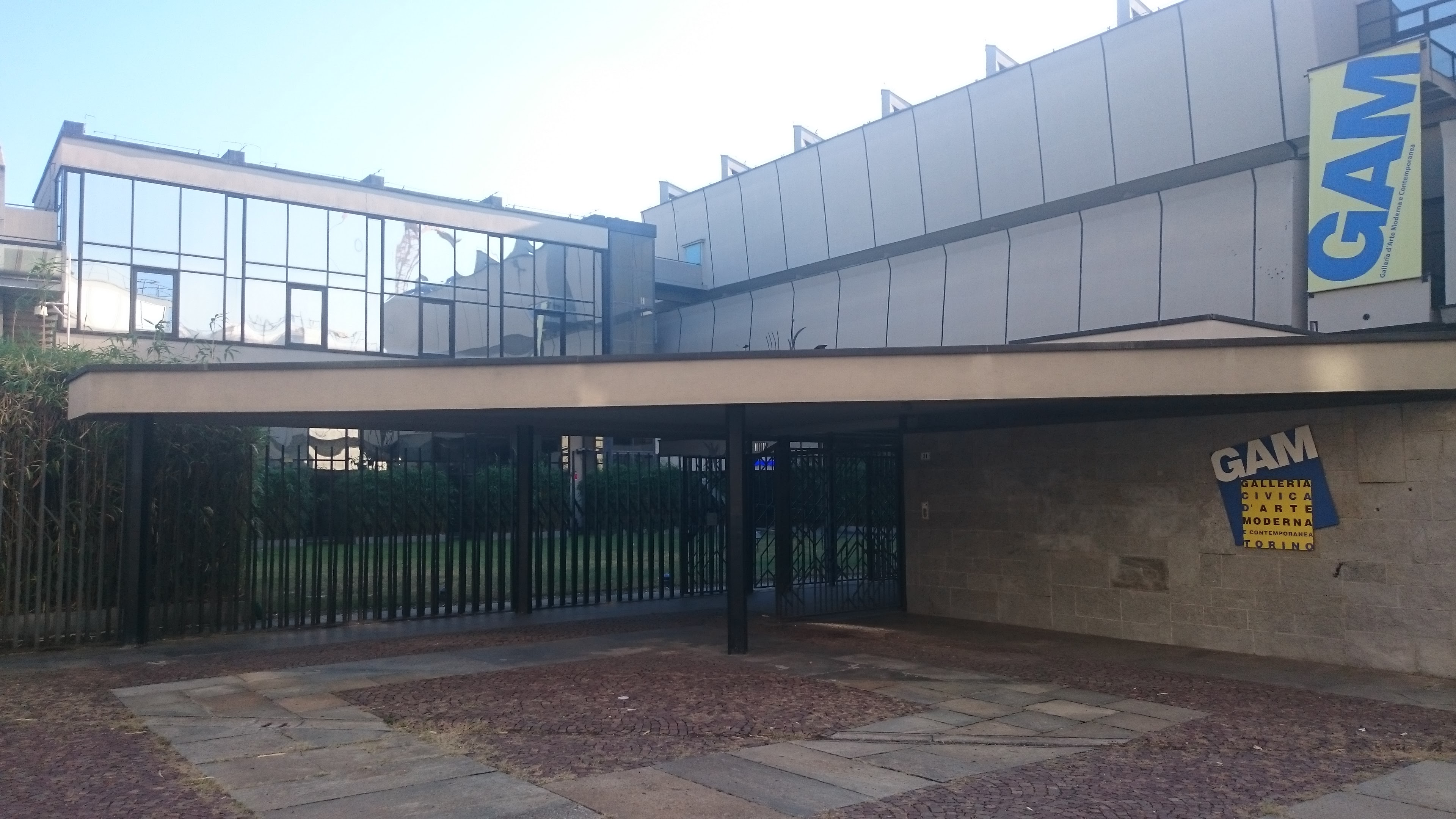 Galleria Civica di Arte Moderna - Turin - Entrance This is a photo of a monument which is part of cultural heritage of Italy.